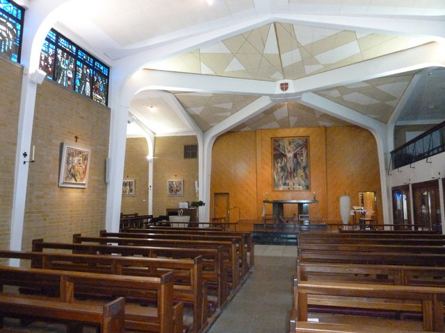 Inside the Roman Catholic church of St Richard of Chichester, Cawley Road, Chichester, West Sussex, looking toward the altar